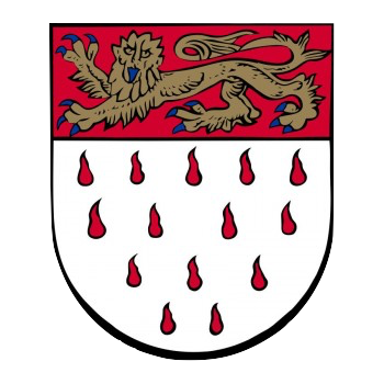 Arms of the English city of Chichester, granted by Royal Patent in 1570. "Argent gutte-de-sang, on a chief gules a lion passant guardant Or."